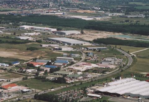 Dunaharaszti, Hungary, aerialphotography